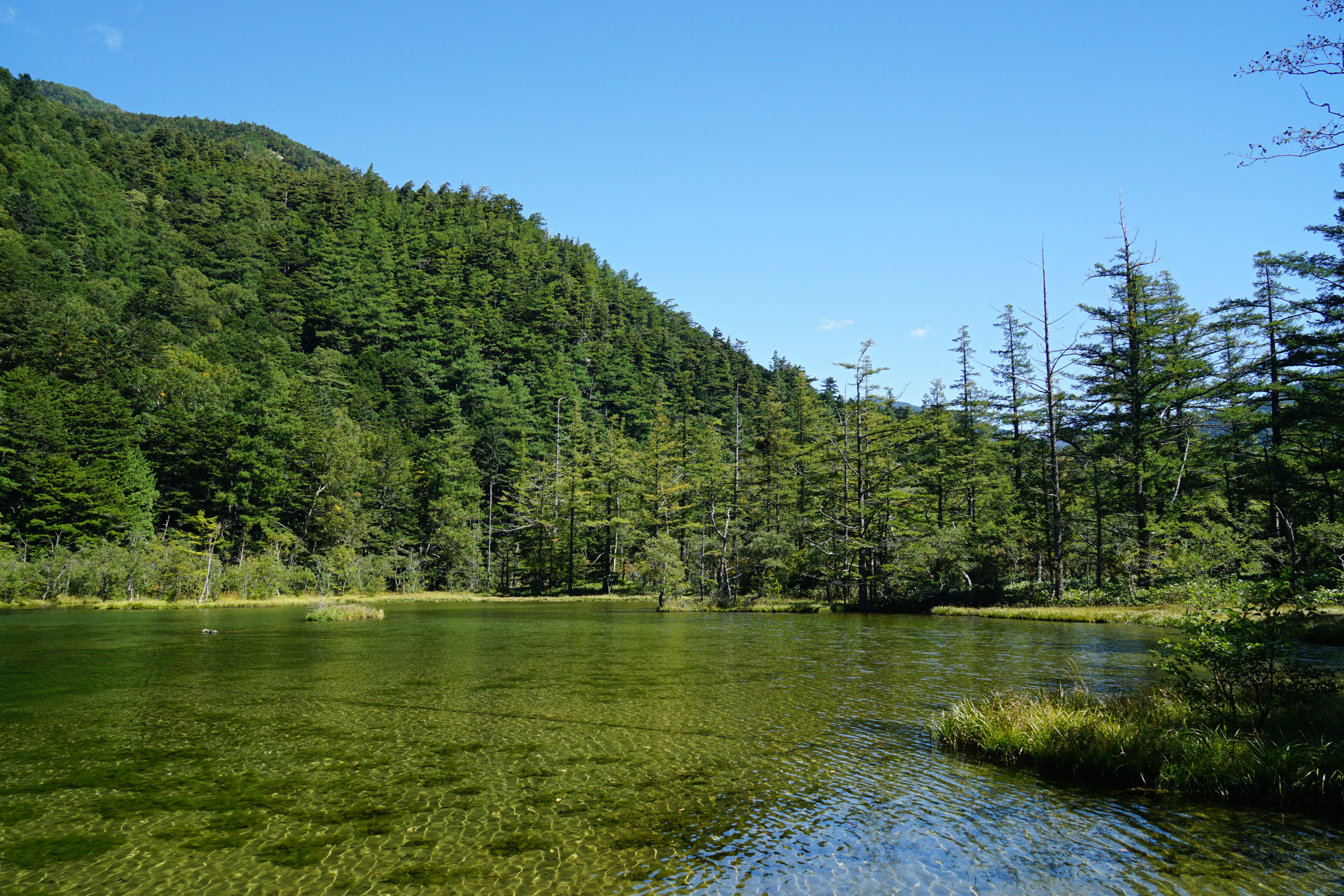 Myojin Pond at Kamikochi, Matsumoto, Nagano prefecture, Japan